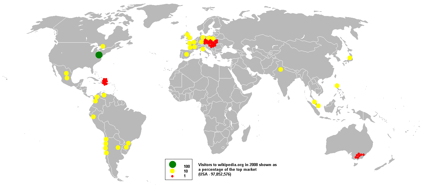 This bubble map shows the global distribution of visitors to the website in 2008 as a percentage of the top market (USA - 97,852,576). This map is consistent with incomplete set of data too as long as the top market is known. It resolves the accessibility issues faced by colour-coded maps that may not be properly rendered on old computer screens.